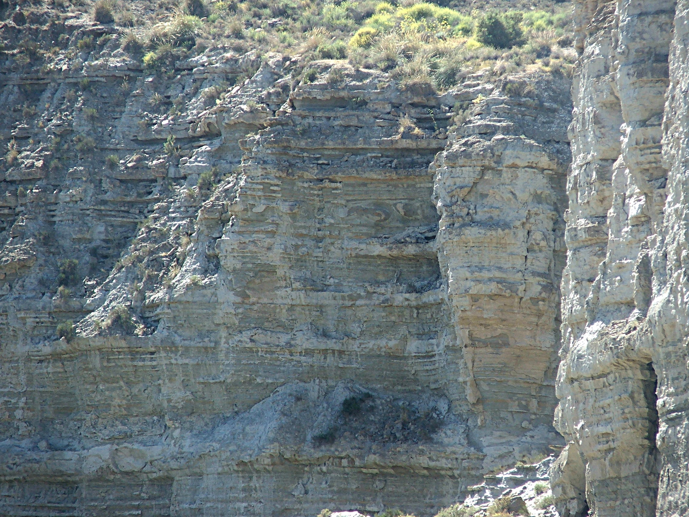 Cyclic deposits, almost certainly of a Milankovich cycle origin, from the Tabernas Desert of southern Spain. Prominent beds are approx. ½ m in width.